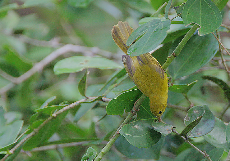 A dorsal view of this hyperactive wee flycatcher. Image taken in Brachystegia woodland within Arabuko-Sokoke Forest in coastal Kenya.